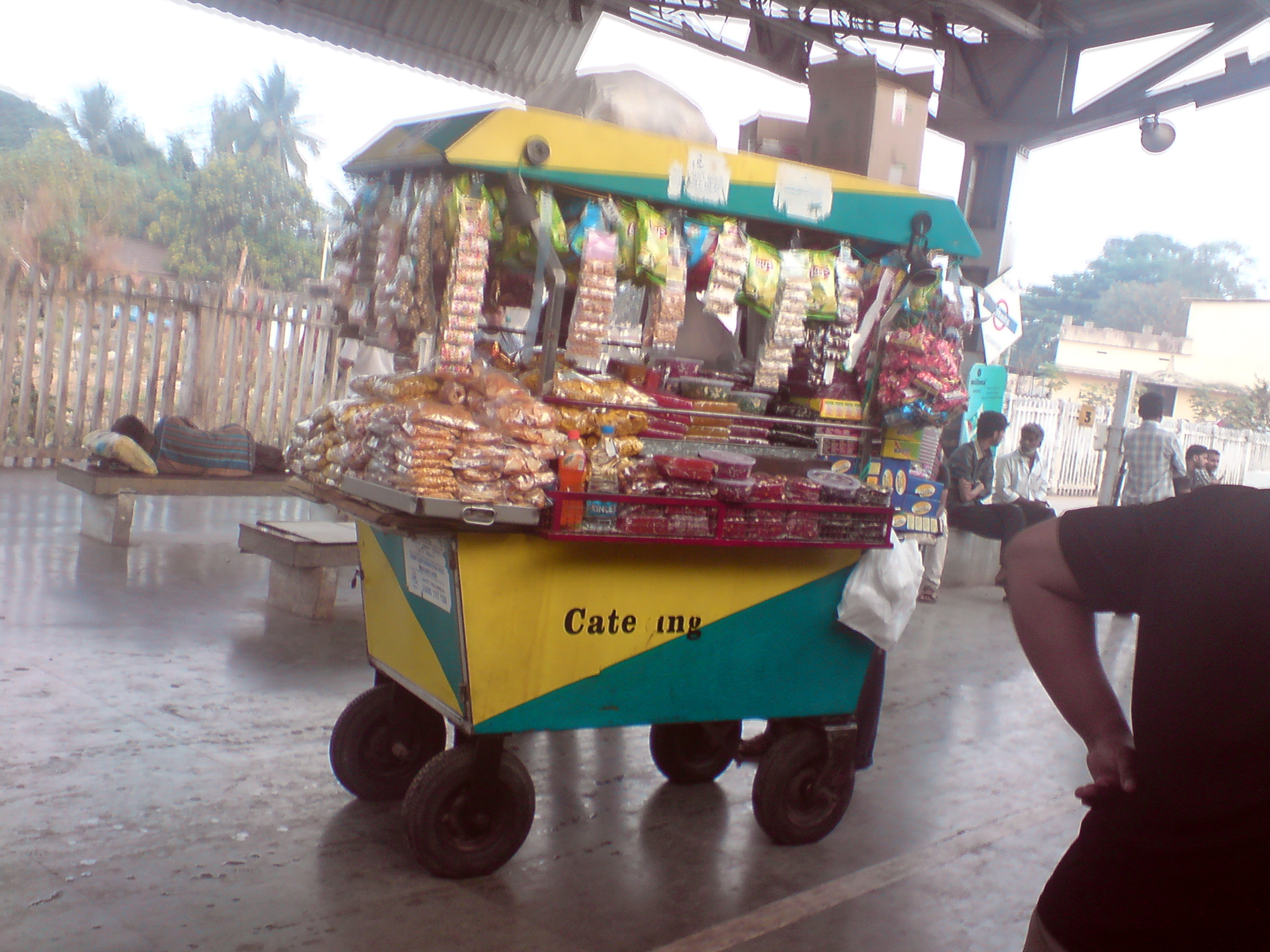 A mobile catering stall found at Kozhikode railway station